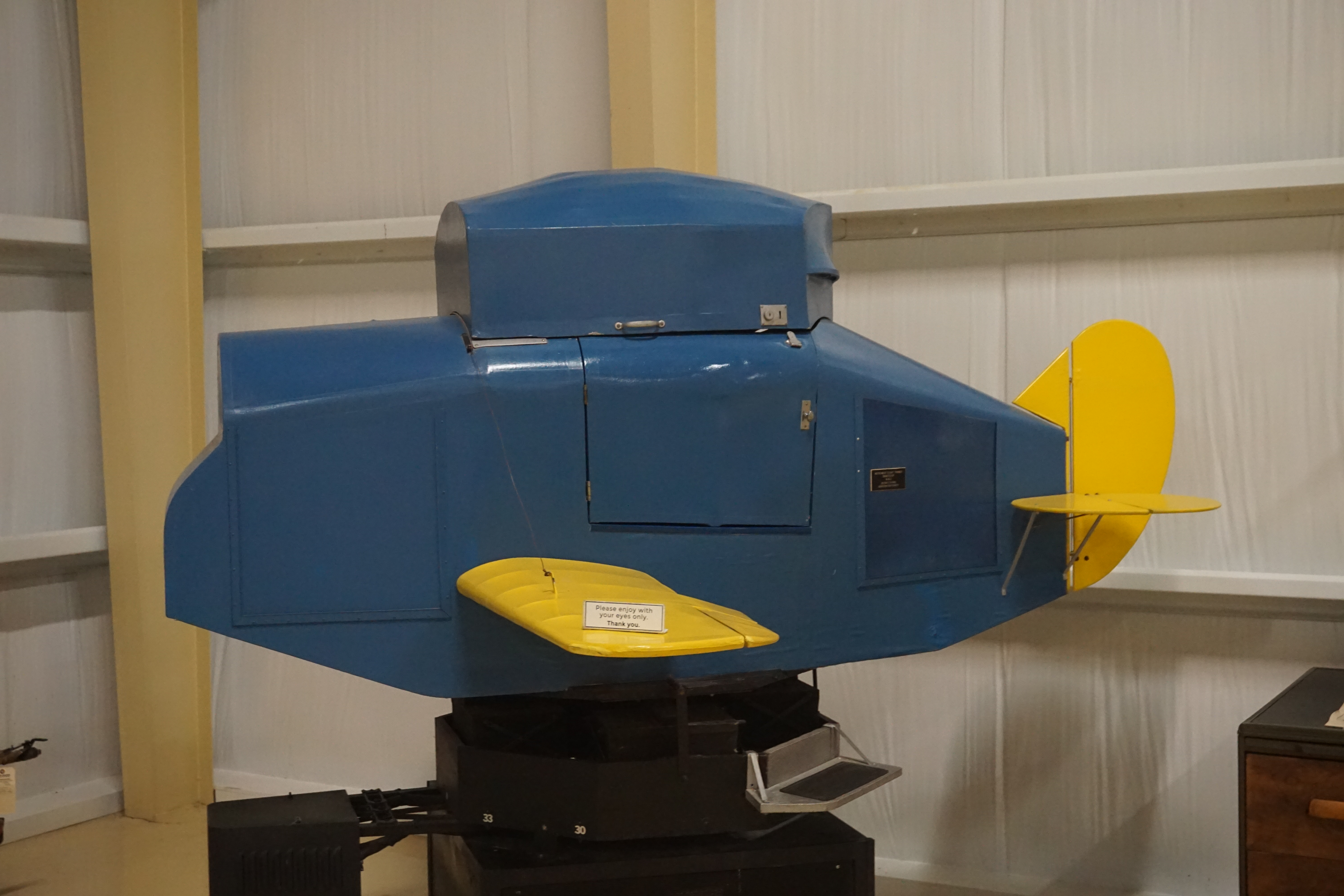 A Link Trainer on display at the Air Zoo at Kalamazoo/Battle Creek International Airport in Portage, Michigan (United States).